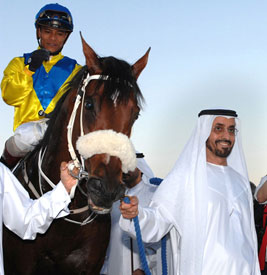 2007 United Arab Emirates Triple Crown winner Asiatic Boy with his owner His Excellency Sheikh Mohammed bin Khalifa Al Maktoum at 2007 United Arab Emirates Dubai World Cup Day.